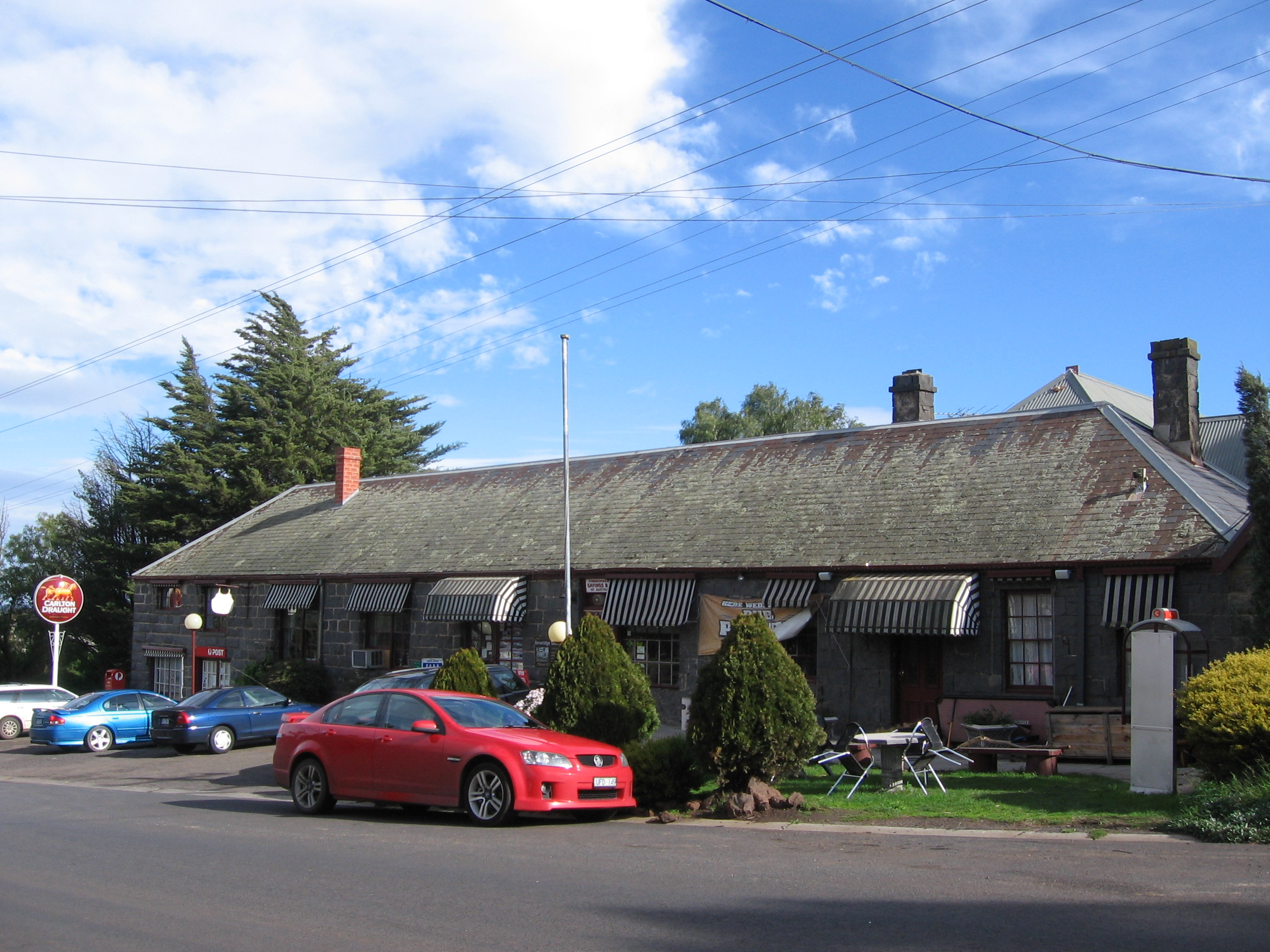 Bluestone hotel at Beveridge, Victoria, including Post Office agency